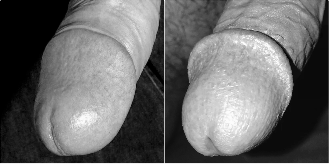 This is a comparison of the corona of an uncircumcised penis (left) and a circumcised penis (right). On a circumcised penis, the coronal ridge is very distinct and pronounced, while it is not as pronounced on an uncircumcised penis.